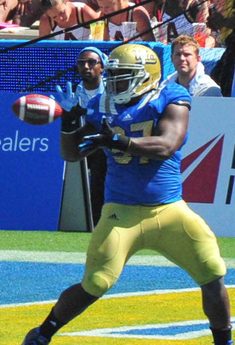 Defensive lineman Kenny Clark of UCLA Bruins football with a touchdown catch on offense against Virginia